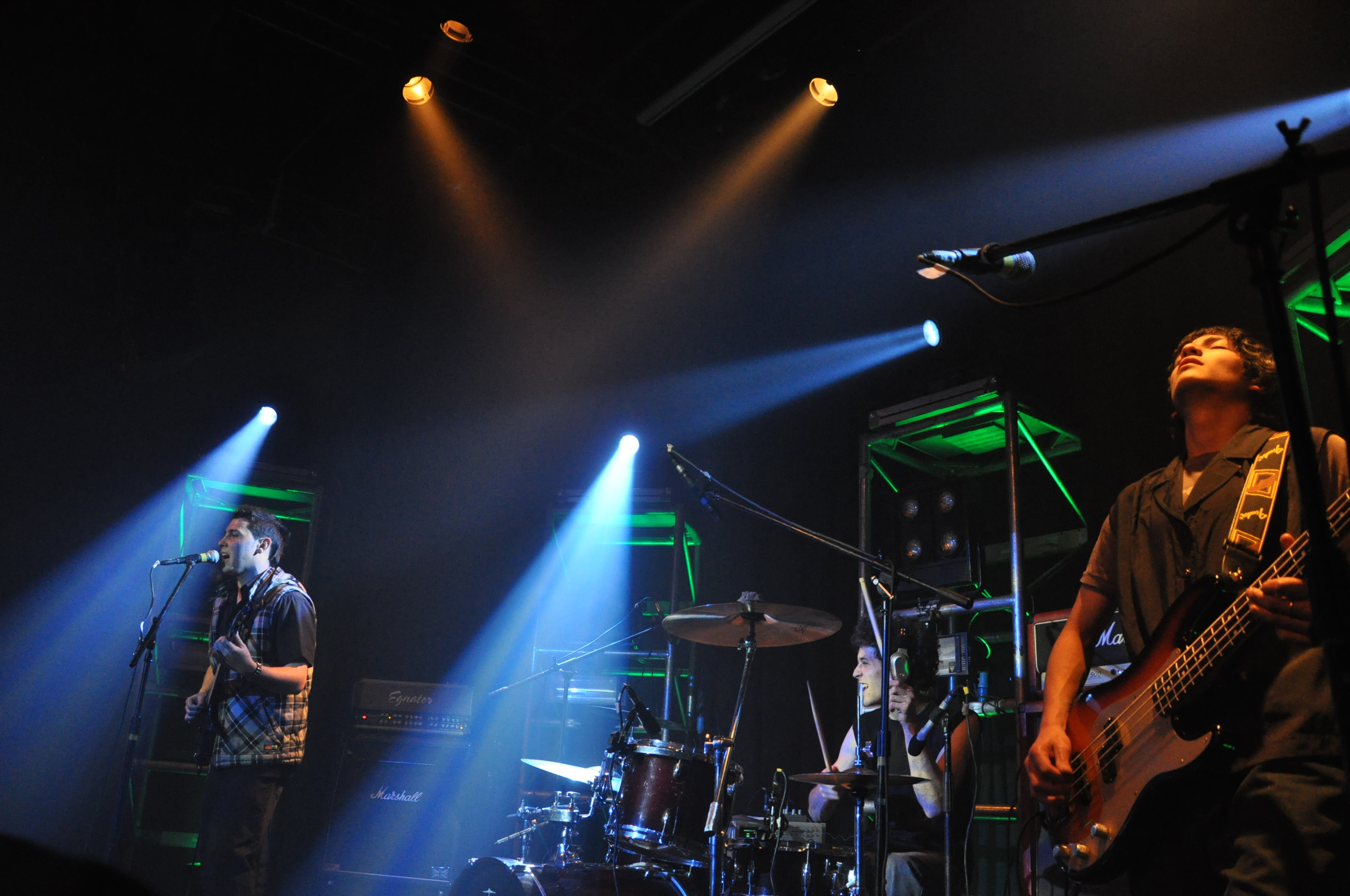 Santo Tabú, argentine pop trio format/dark/rock, composed by Leo Cortes, Pablo Peinado and Iván Pocheret.